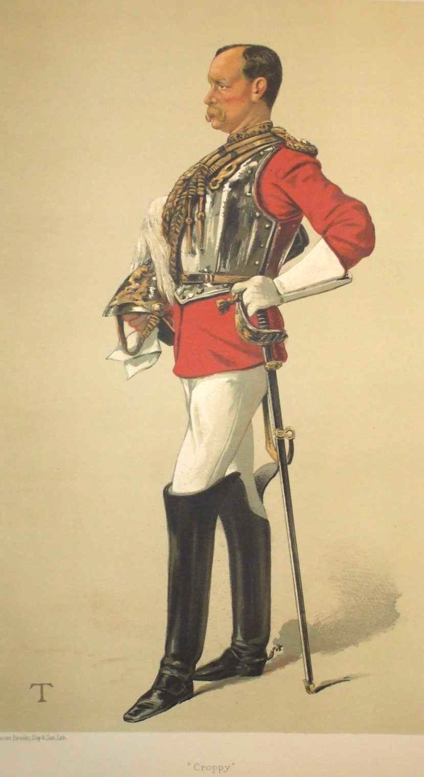 Caricature of Colonel Henry P Ewart CB. Caption read "Croppy".